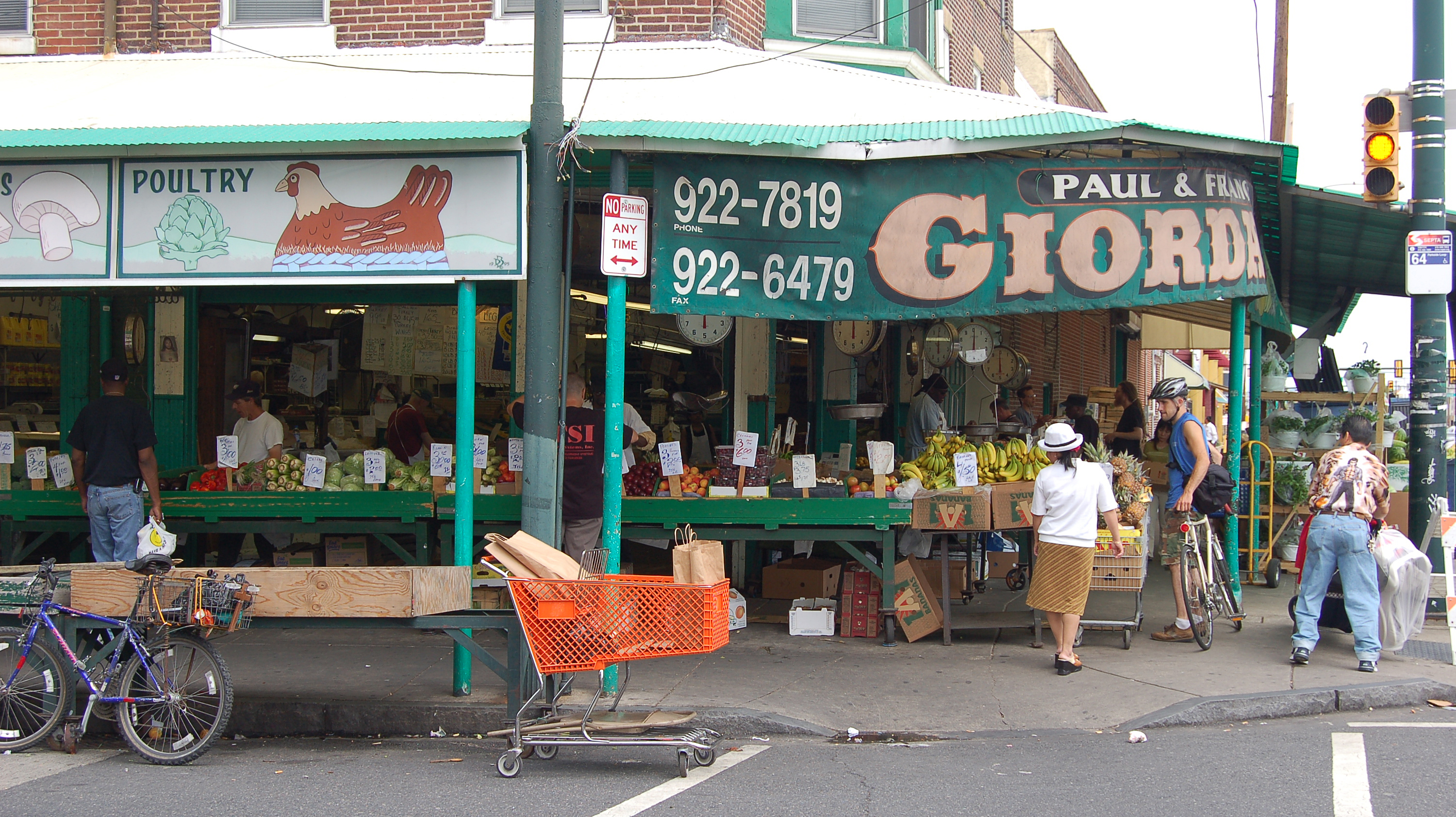 A vendor at the Philadelphia Italian Market.